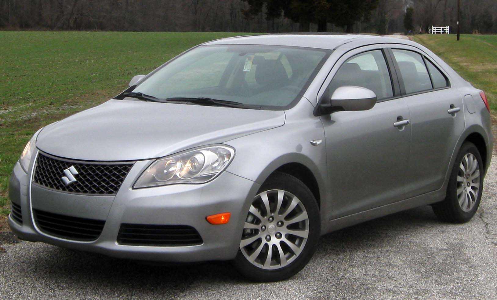 2010 Suzuki Kizashi SE AWD photographed in Nanjemoy, Maryland, USA.